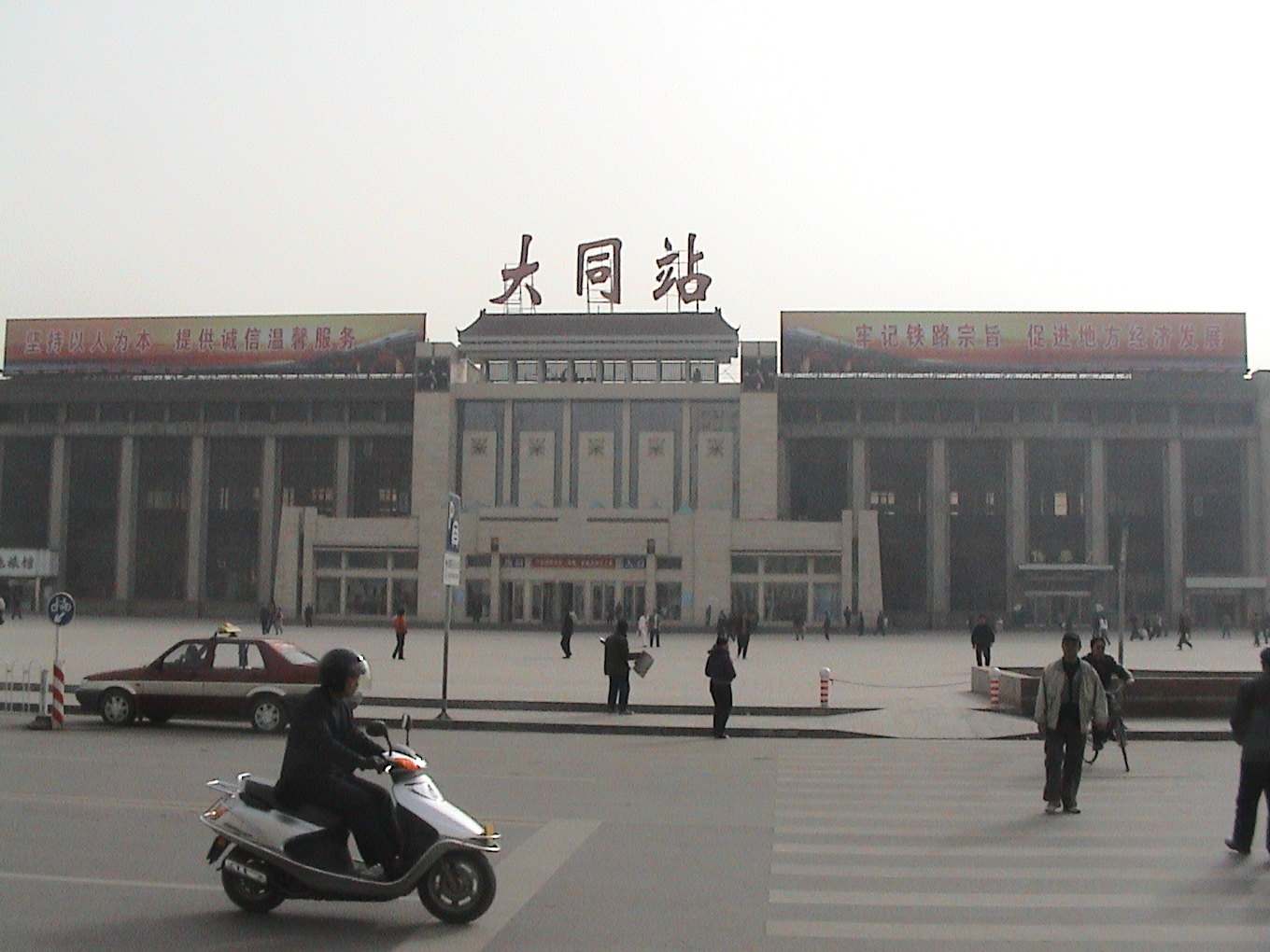 Datong railway station The photo was taken by User:Yaohua2000 at 2006-04-16 00:26:54 UTC. Do not trust the timestamp in JPEG metadata, the time was 174 seconds after the clock of the camera.